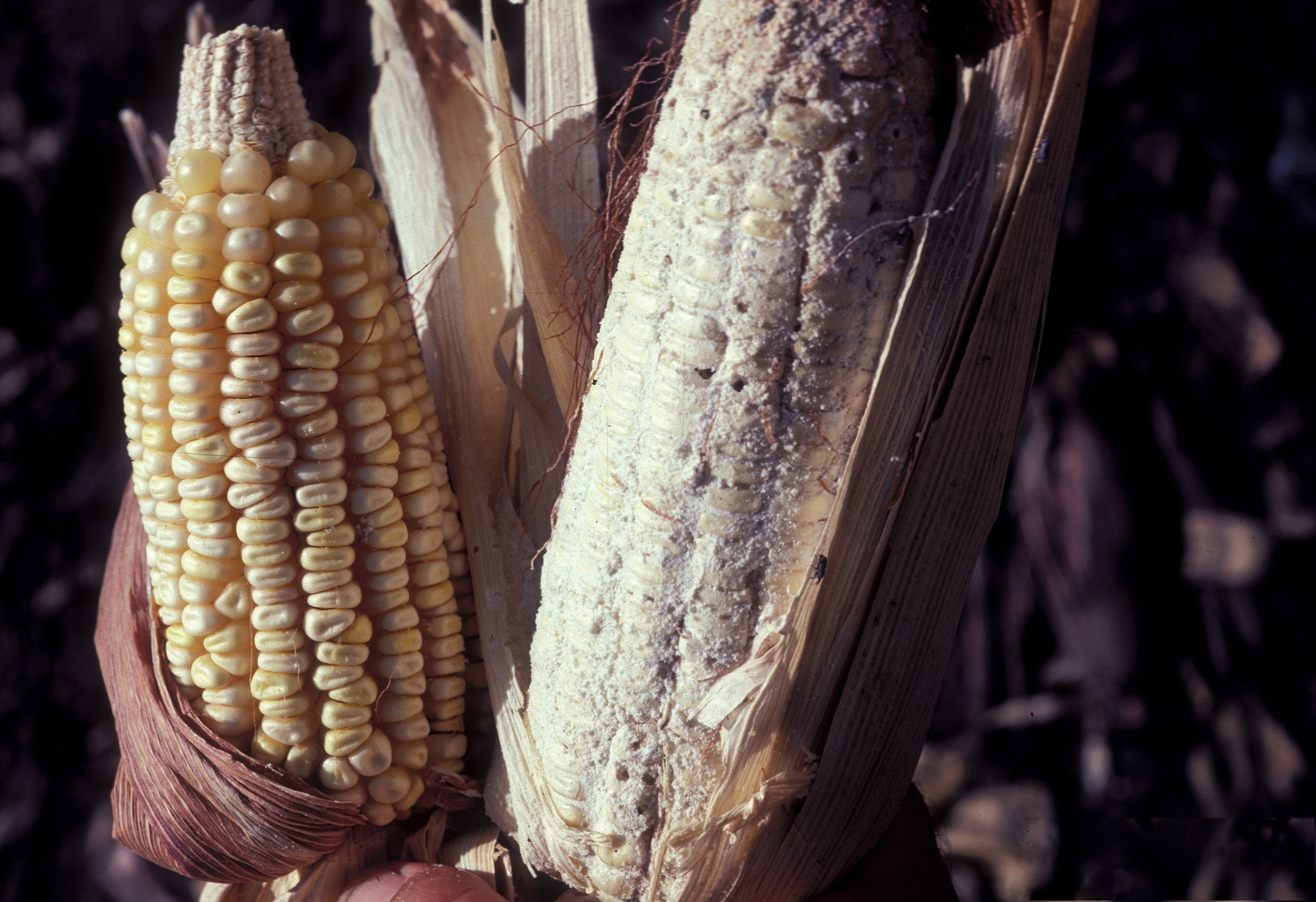 Maize showing damage by maize weevil (Sitophilus zeamais)